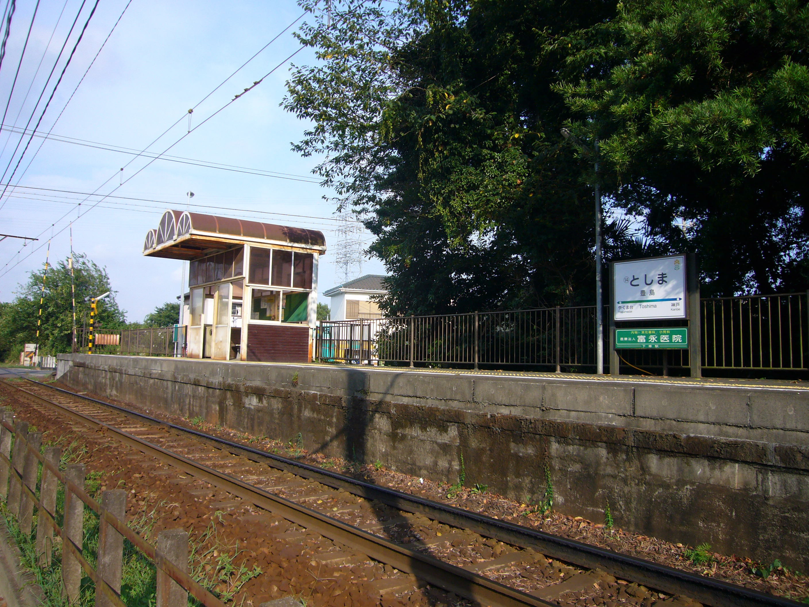 Toshima Station in Tahara City, Aichi Prefecture, Japan